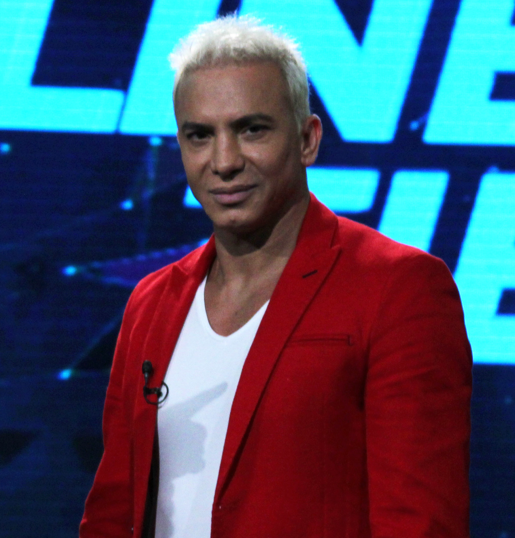 Matías Martin y Flavio Mendoza en Línea de tiempo. 18.11.2014. Foto TVP 2014